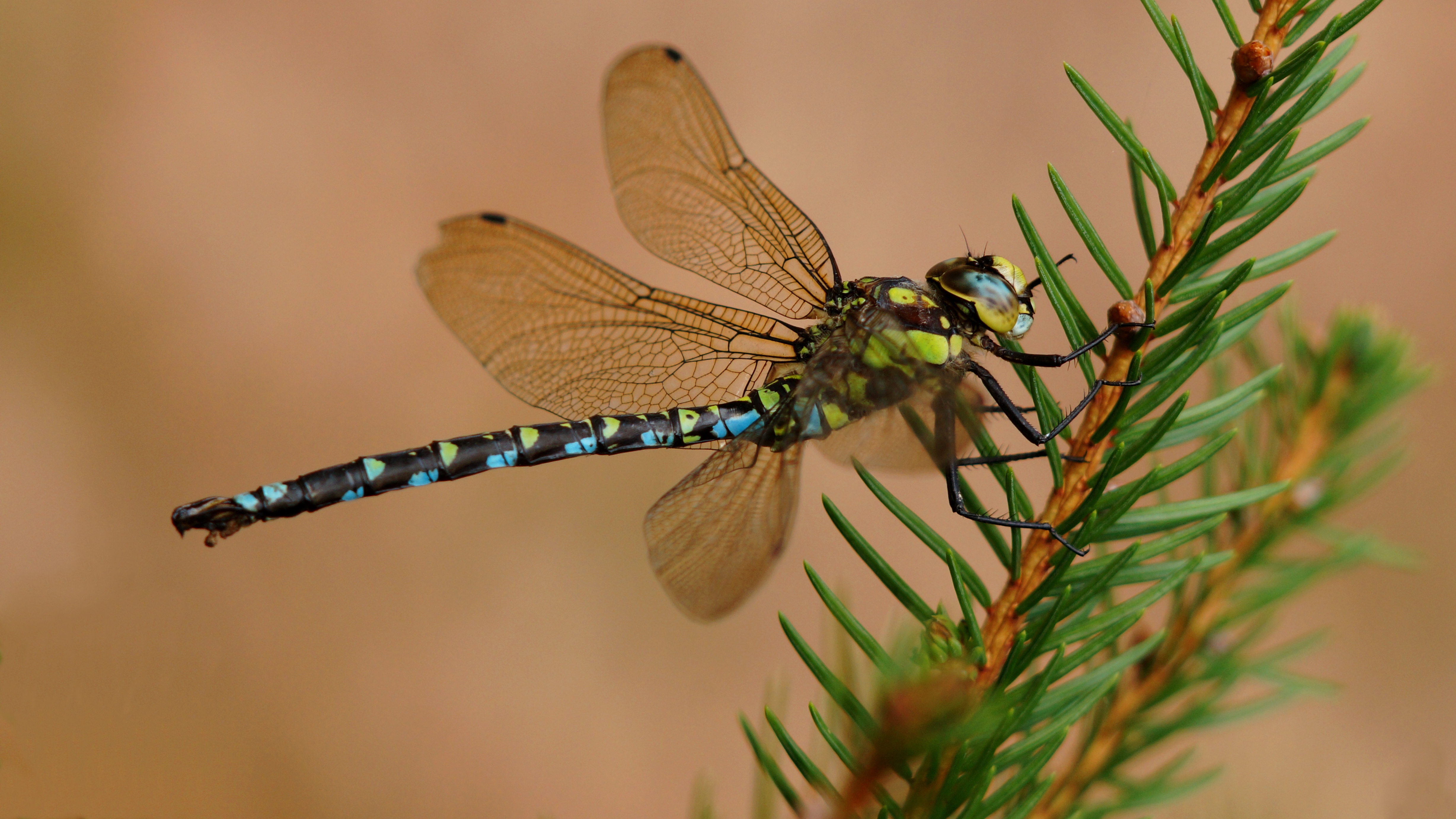 Southern Hawker Dragonfly photographed in Bavaria (Germany).